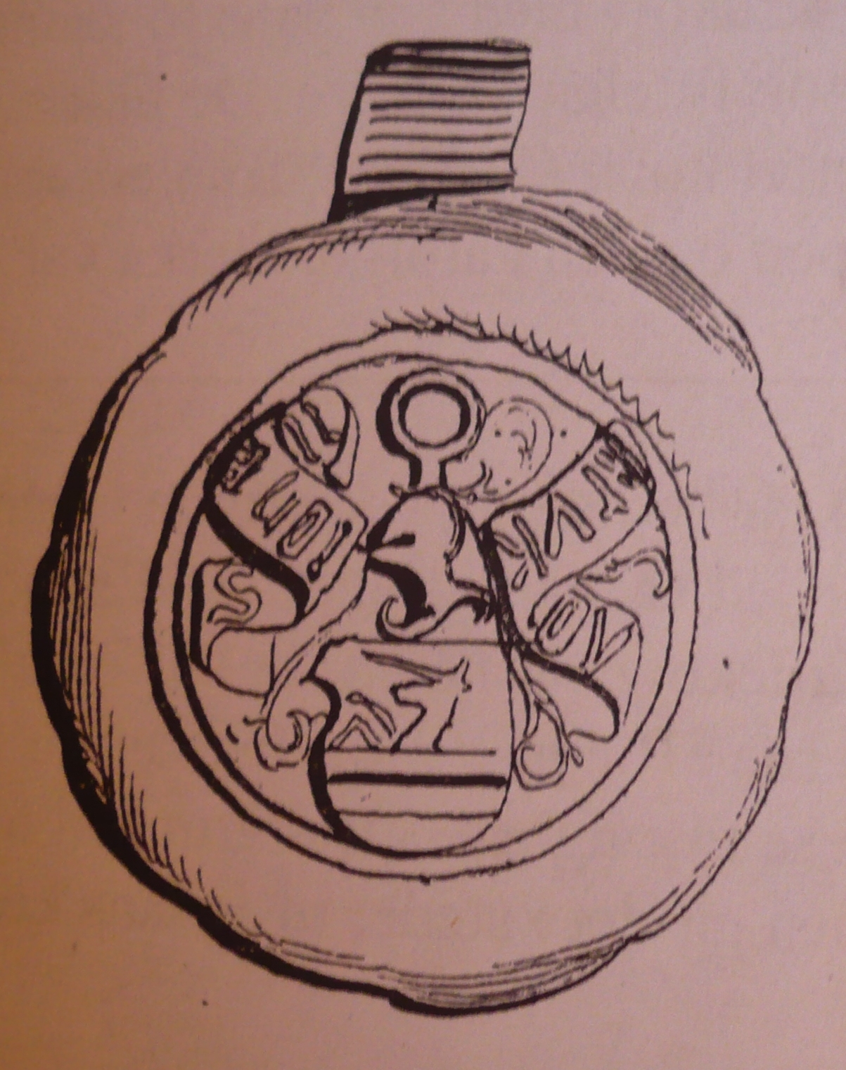 Coat of arms of Johan Kruckow in Norway.